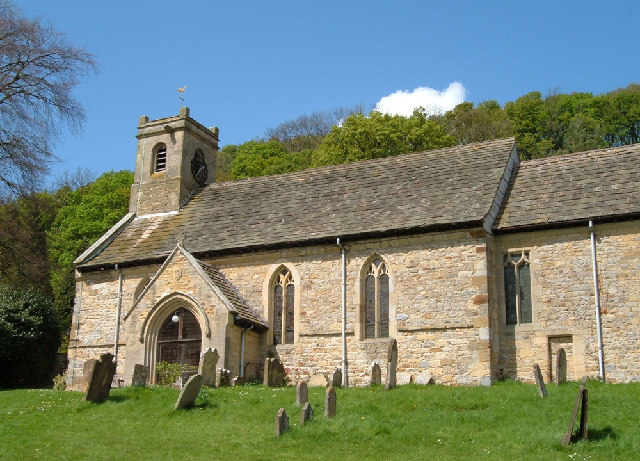 Parish Church of St Oswald, Oswaldkirk. Full title Parish Church of St Oswald King and Martyr.